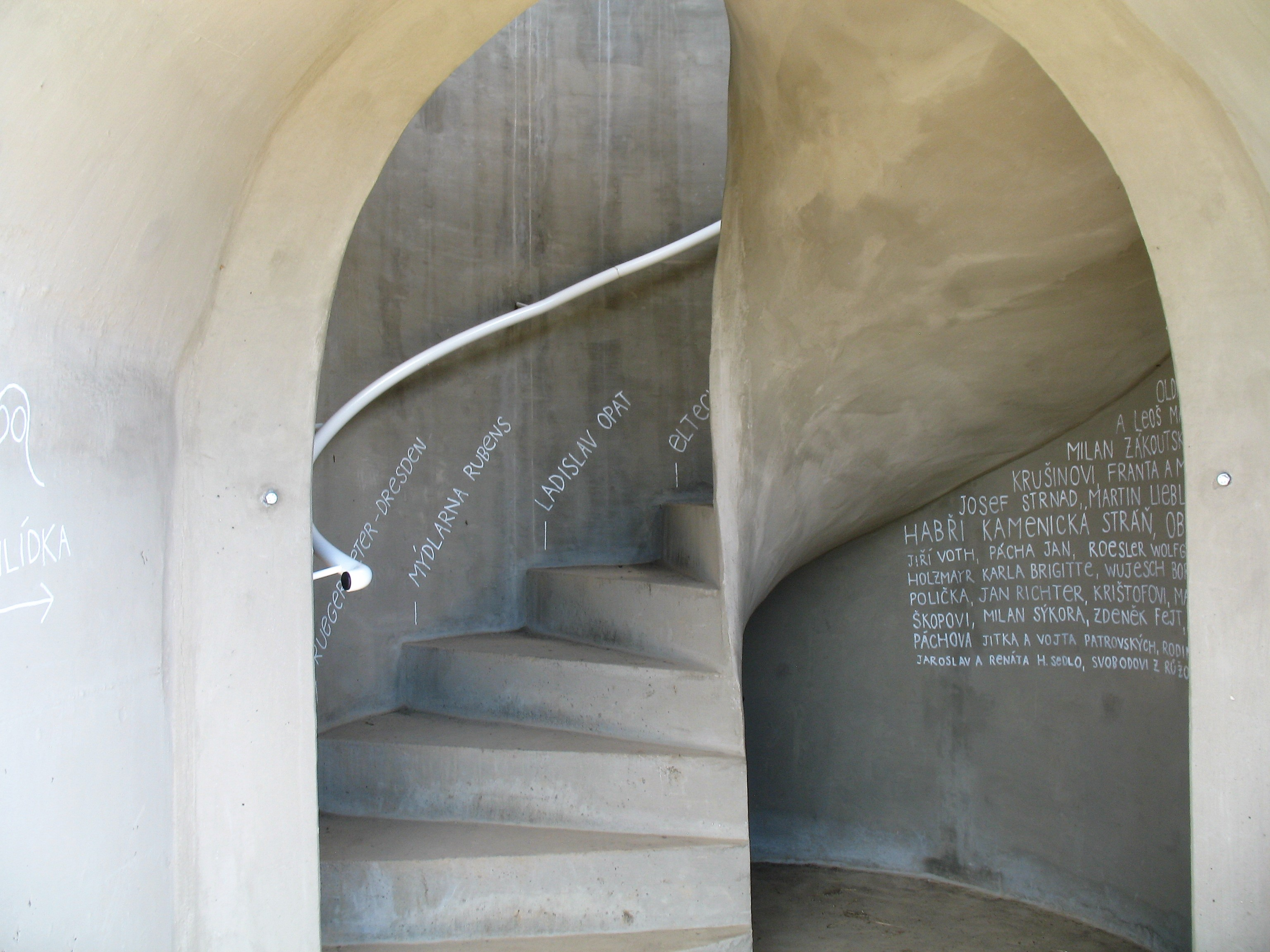 Observation tower Růženka in Růžová, Děčín District, Czech Republic